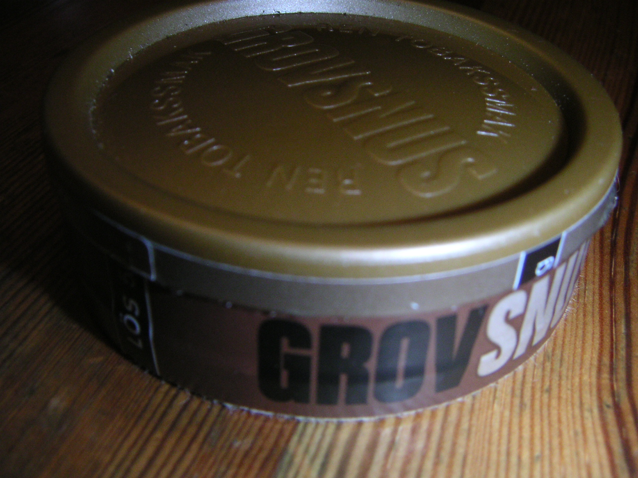 Snus by the brand Grov